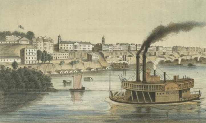 Memphis, Tennessee in mid 1850s. Steamboat Hiram Powers